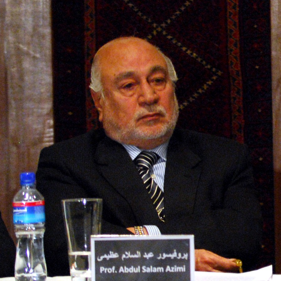 Abdul Salam Azimi at the CJTF Conference (Counter Narcotics Justice Task Force) in Kabul, Afghanistan.